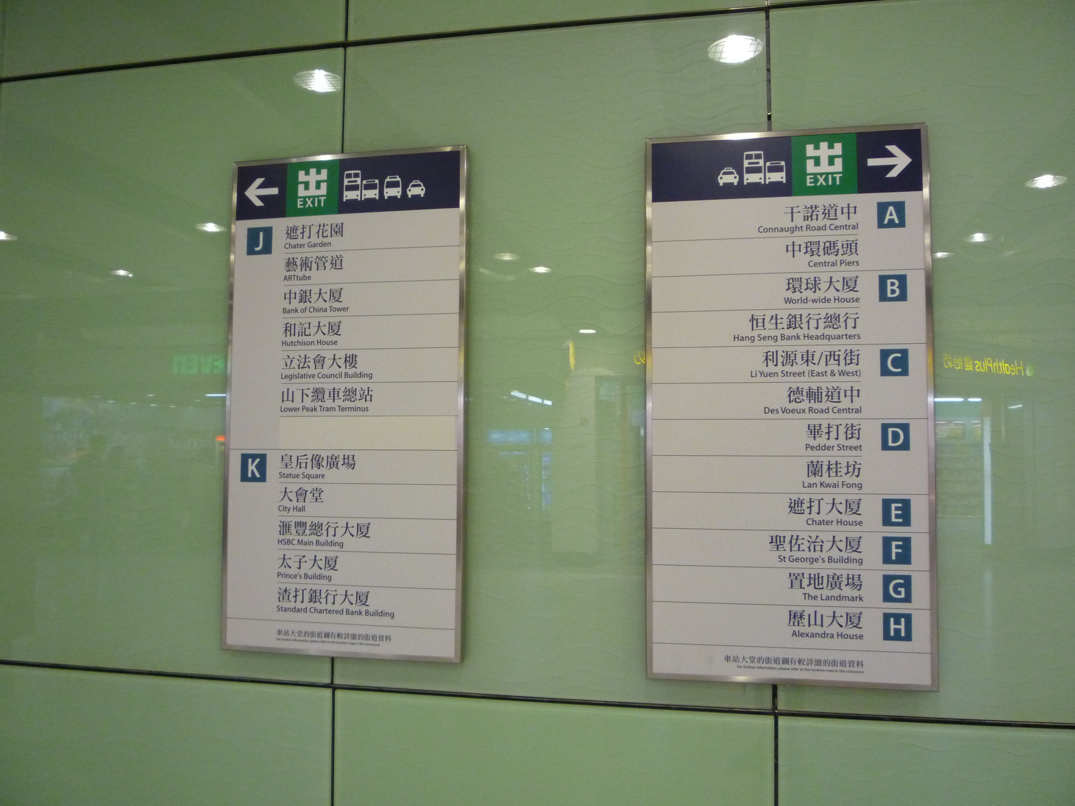 The exit guide in MTR Central Station